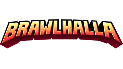 Game's logo